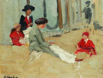 Painting by Ernst Oppler.